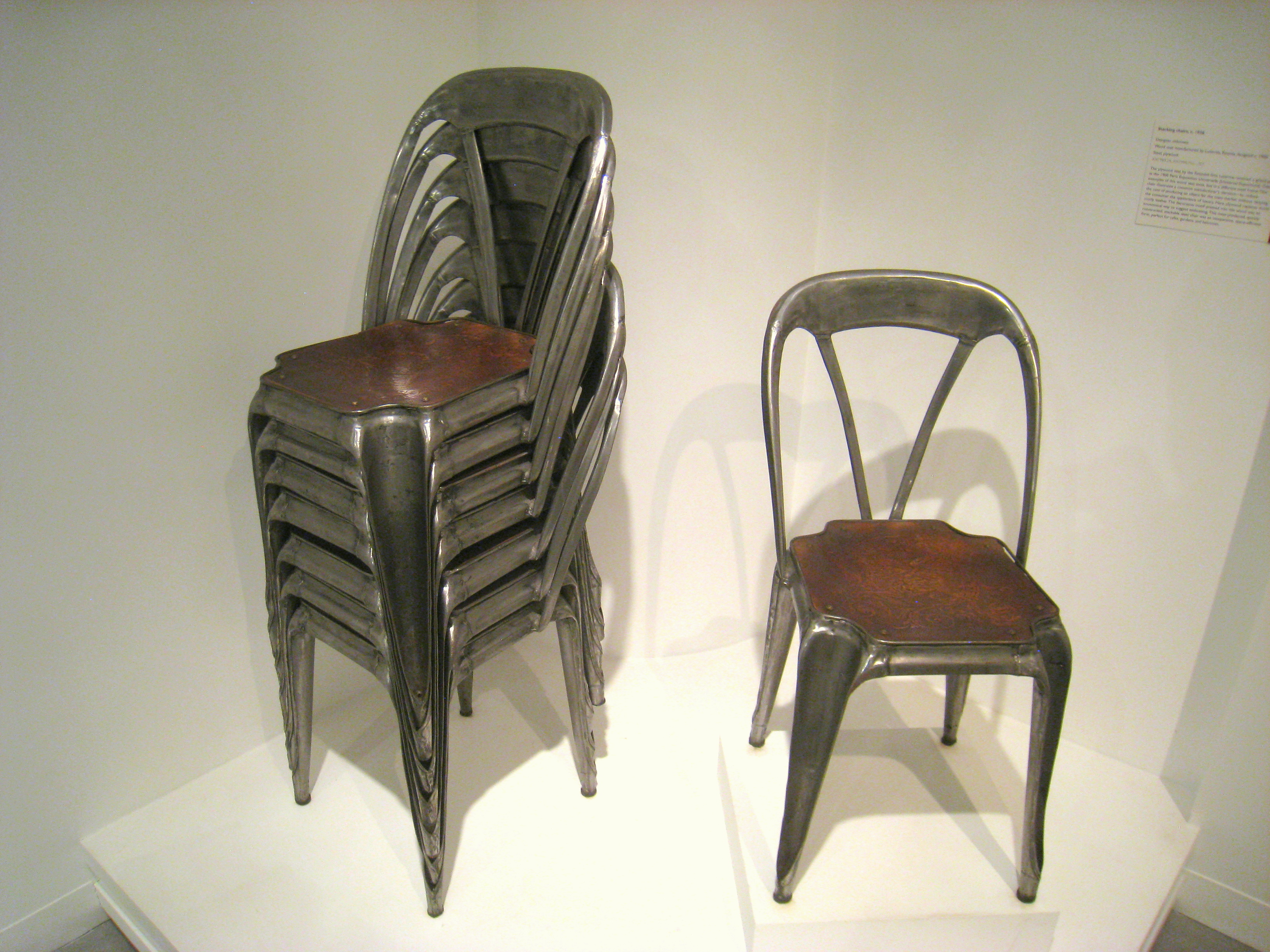 Stacking chairs, designed circa 1900, by Luterma in Estonia; received grand prize in the 1900 Paris Exposition Universelle. Exhibit in the Wolfsonian-Florida International University Museum, 1001 Washington Avenue, Miami Beach, Florida, USA. Photography was permitted in this area of the museum without restrictions.